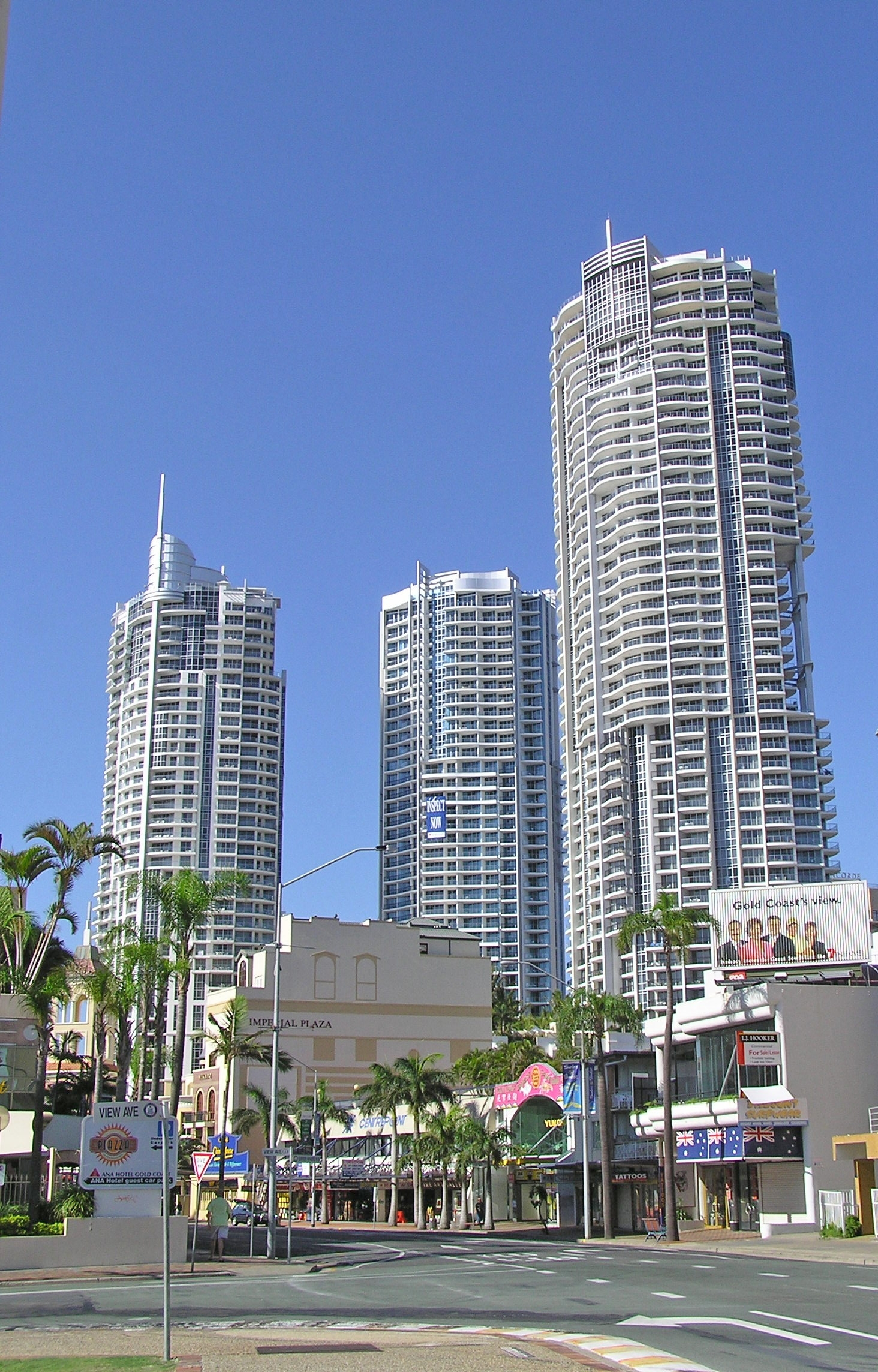 Chevron Renaissance triple towers viewed from Gold Coast Highway